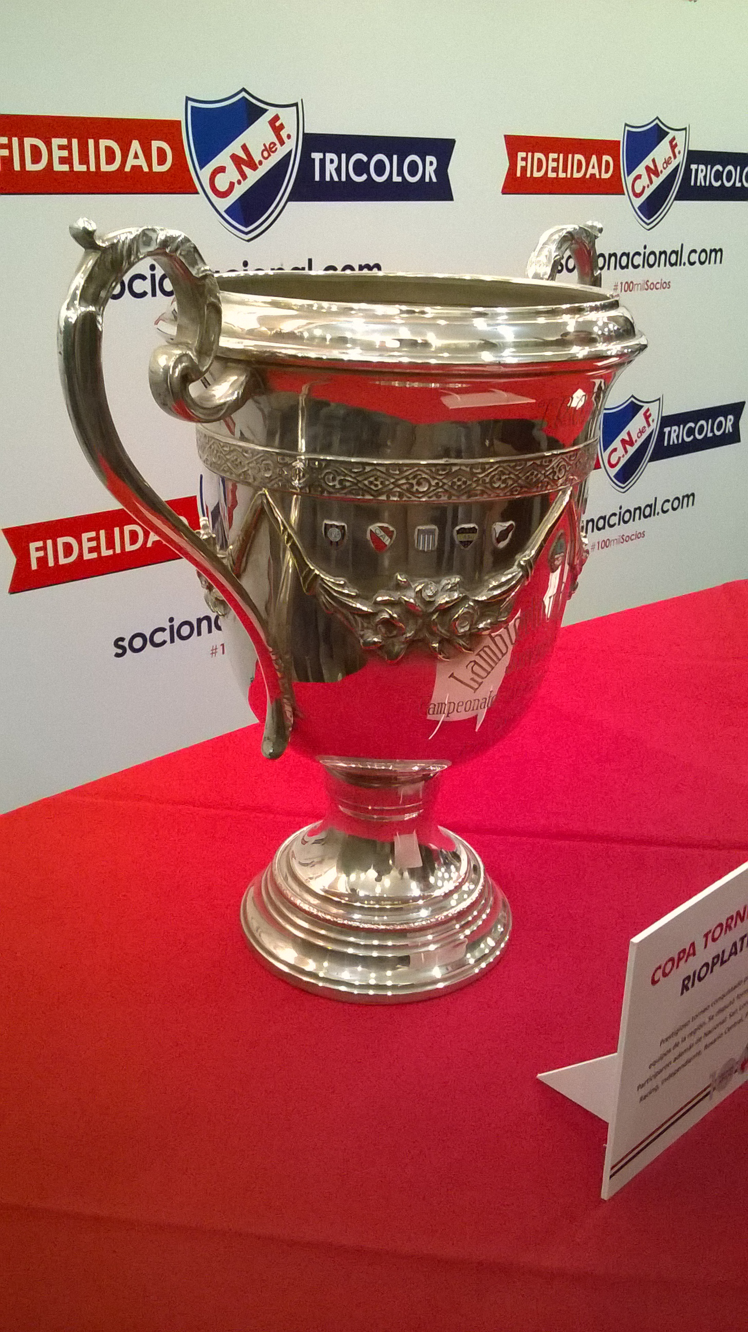 Trophy of the 1938 Torneo Internacional Nocturno which was won by Club Nacional de Football